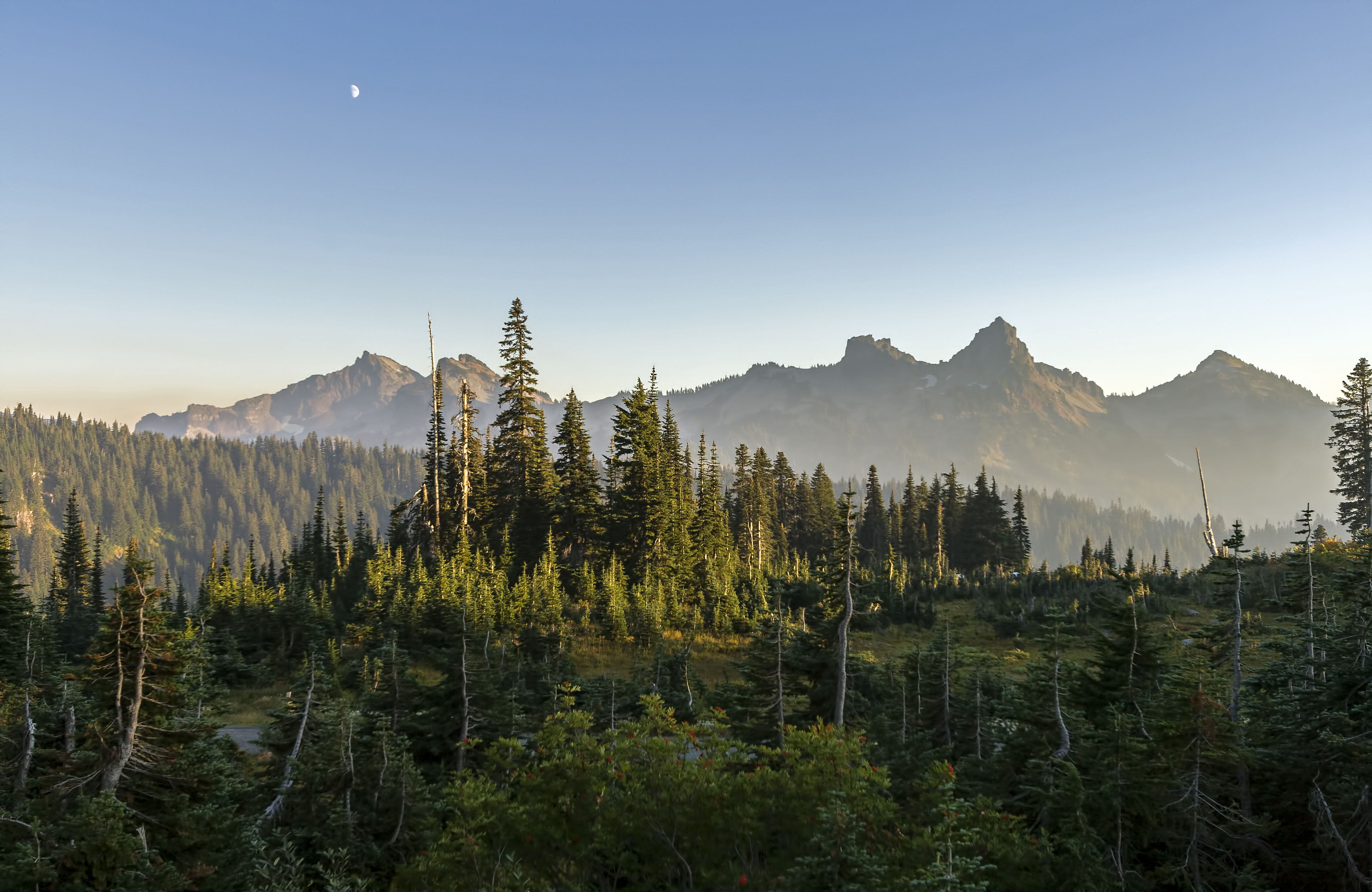 Tatoosh Range in Mount Rainier National Park from Paradise. The haze is smoke from a nearby forest fire.